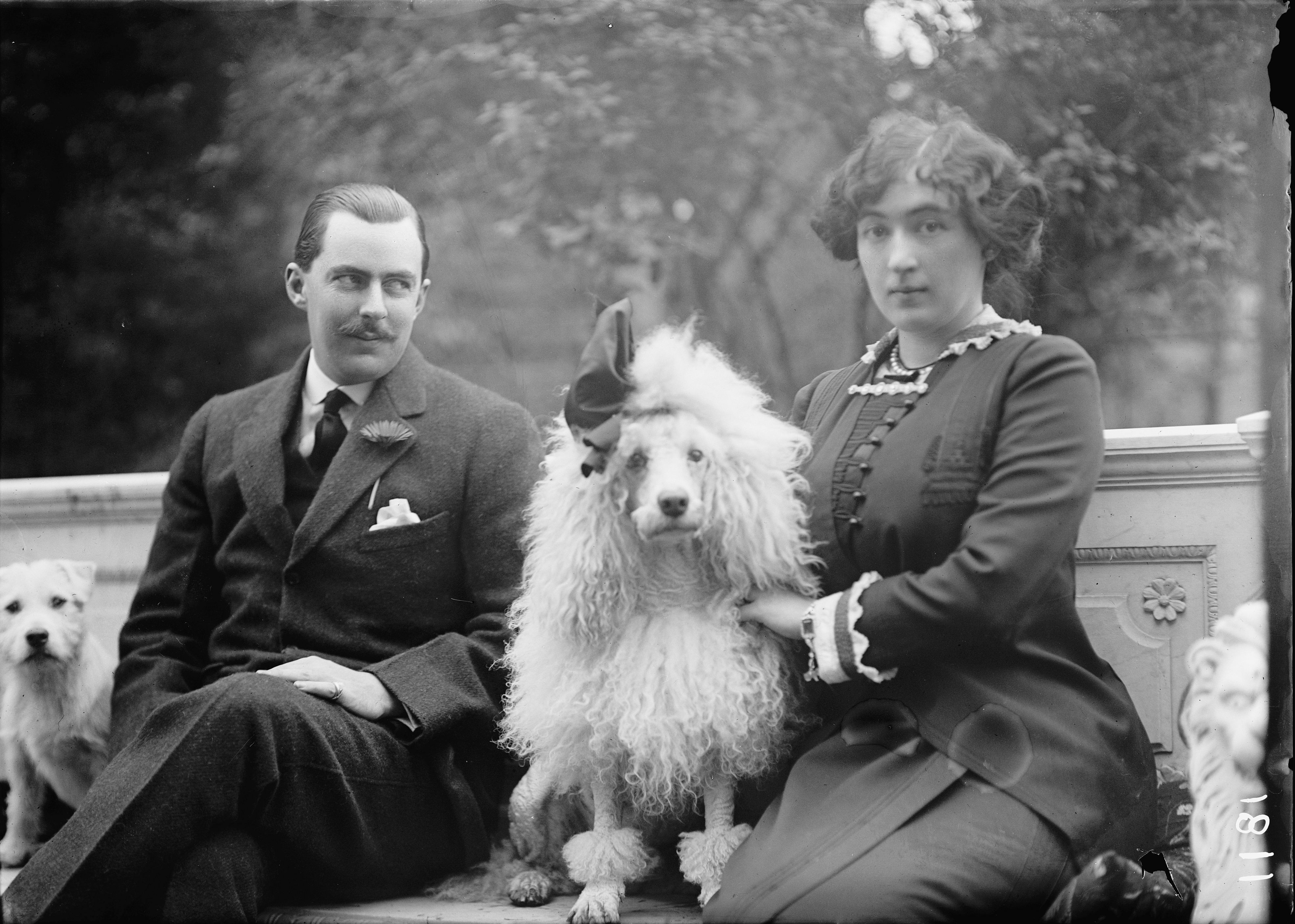 Black and white portrait photograph of Edward Beale McLean and Evalyn Walsh McLean.